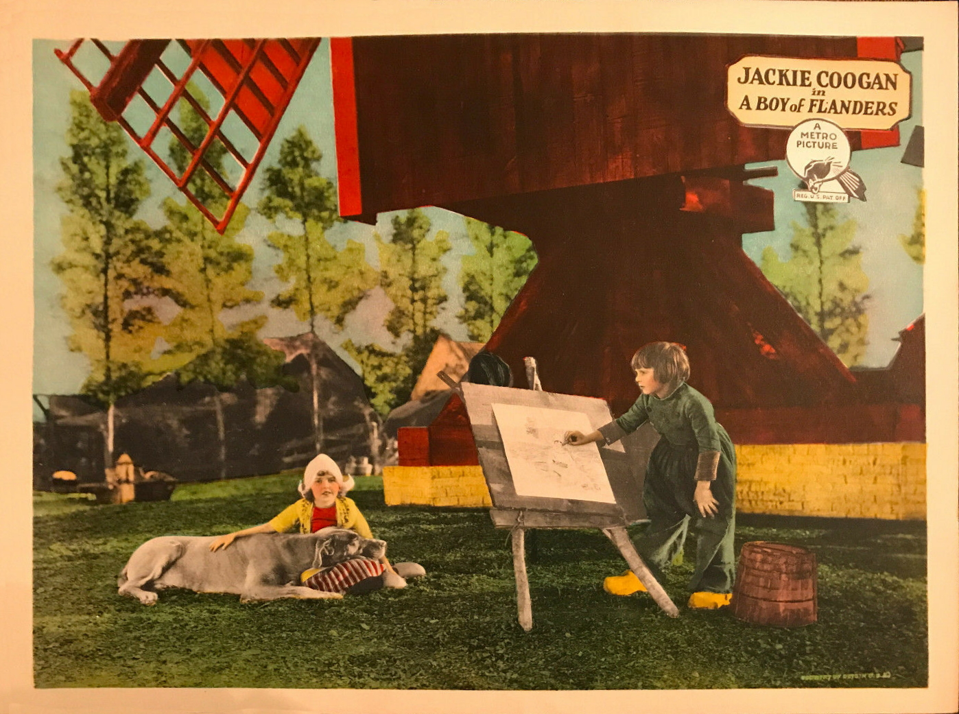 This is a lobby card for the 1924 American silent drama family film A Boy of Flanders.